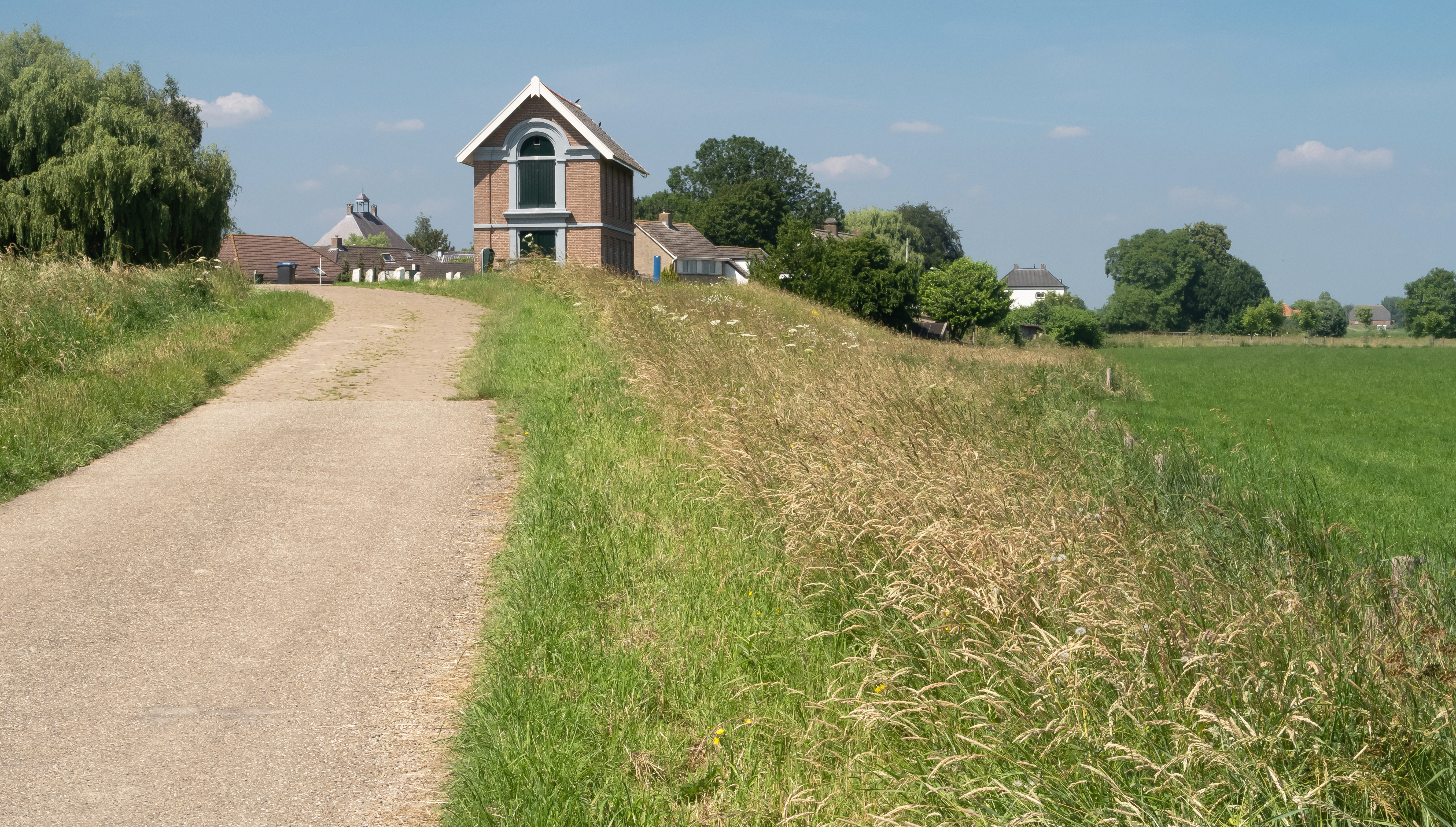 Alphen, monumental storage place